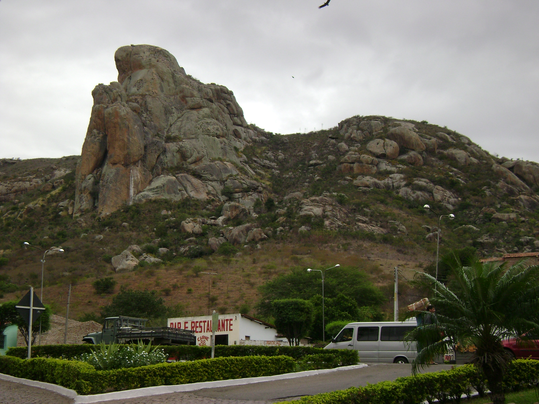 Montanha na entrada do município de Milagres, na Bahia, Brasil.